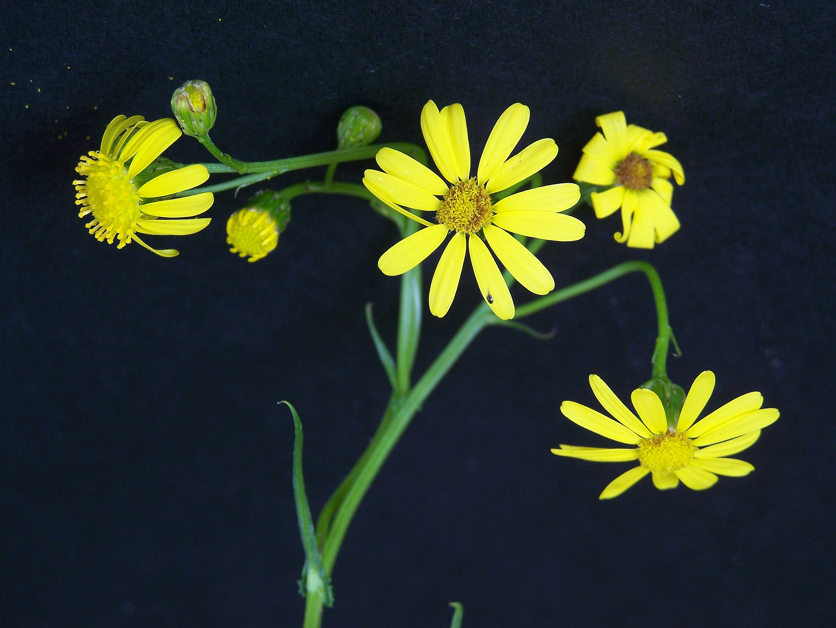 Narrow-Leaved Ragwort; Senécio inaequidens DC. Leaves: linear, sessile. Ligules: 13.